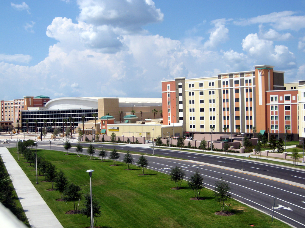 Tower I, New UCF Arena, and Tower IV (University of Central Florida)